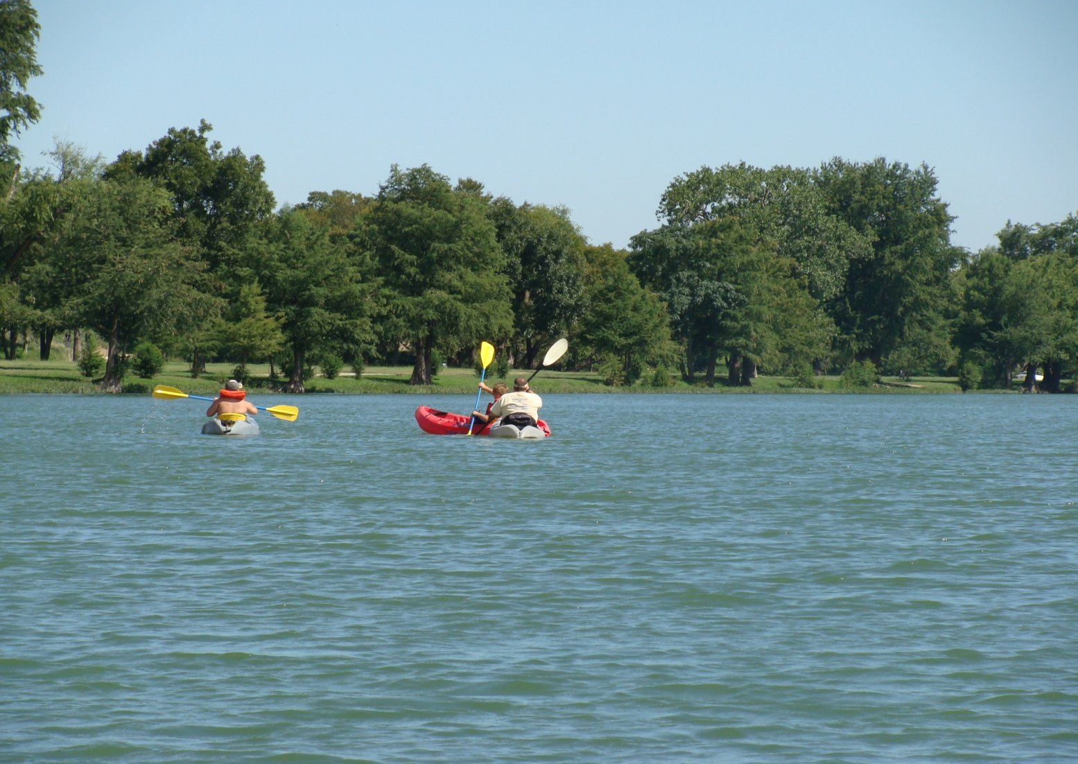 Guadalupe River, Kerville, Texas.